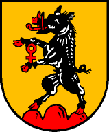 Source: "Fahnen-Gärtner GmbH, Mittersill" This image shows a flag, a coat of arms, a seal or some other official insignia. The use of such symbols is restricted in many countries. These restrictions are independent of the copyright status.